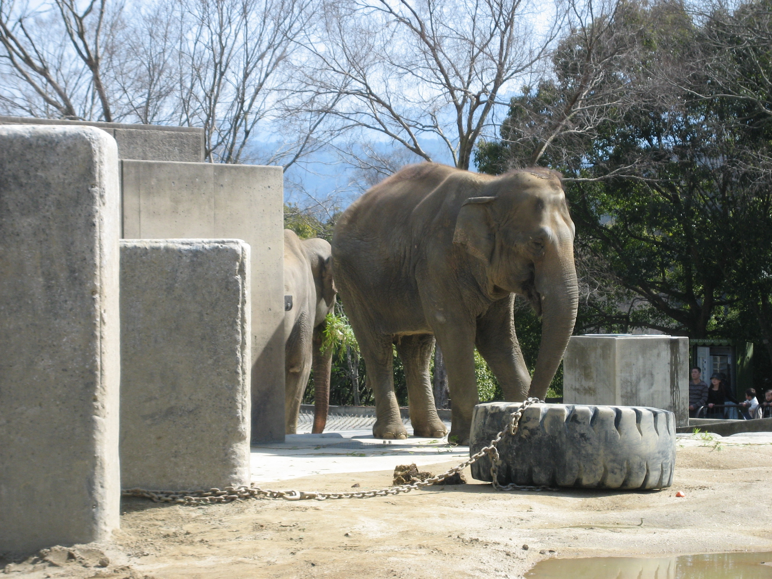 Tobe Zoological Park of Ehime Pref. Tobe-town, Japan.